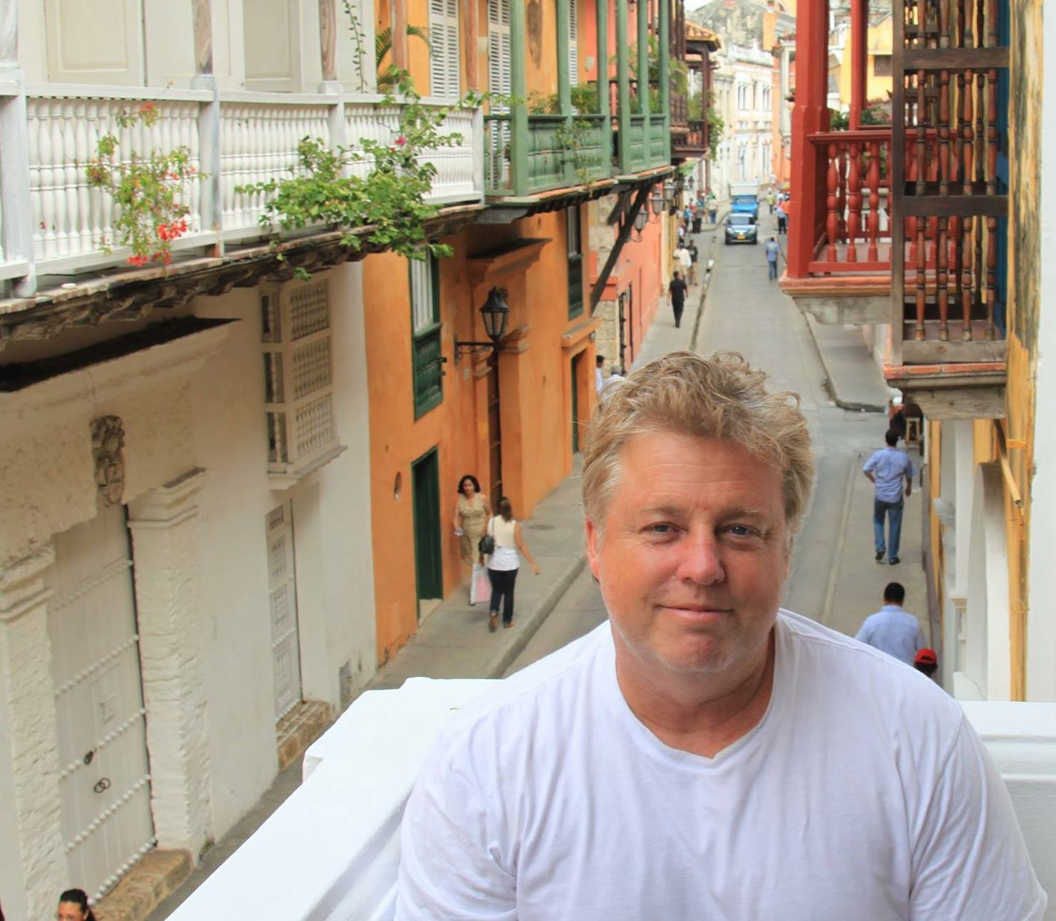 Gregory Widen writer photo